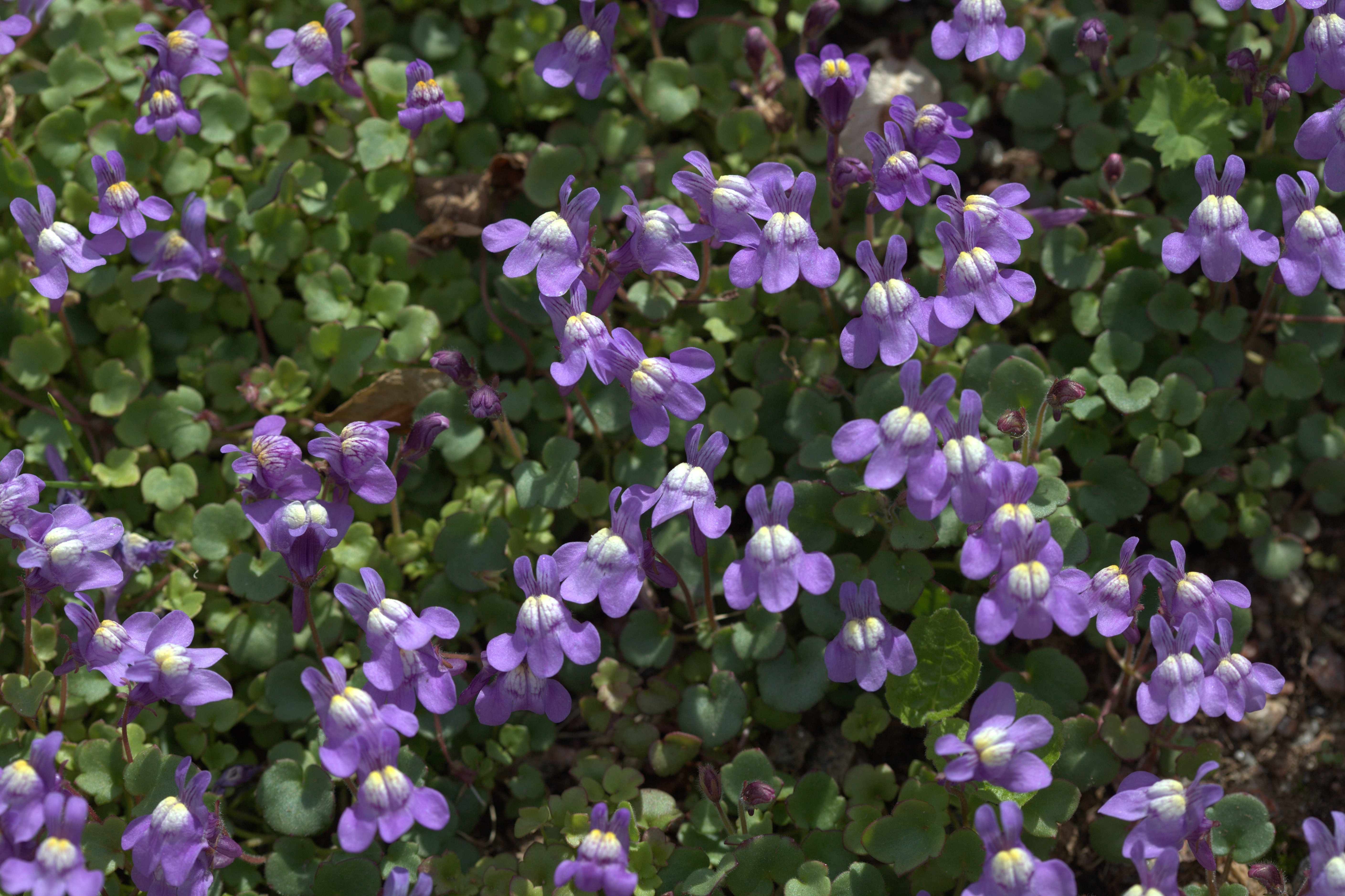 Photo taken at Gothenburg botanical garden. Specimen id: 1990-2363 p G Plant collected in 1990 from a garden (Säve).